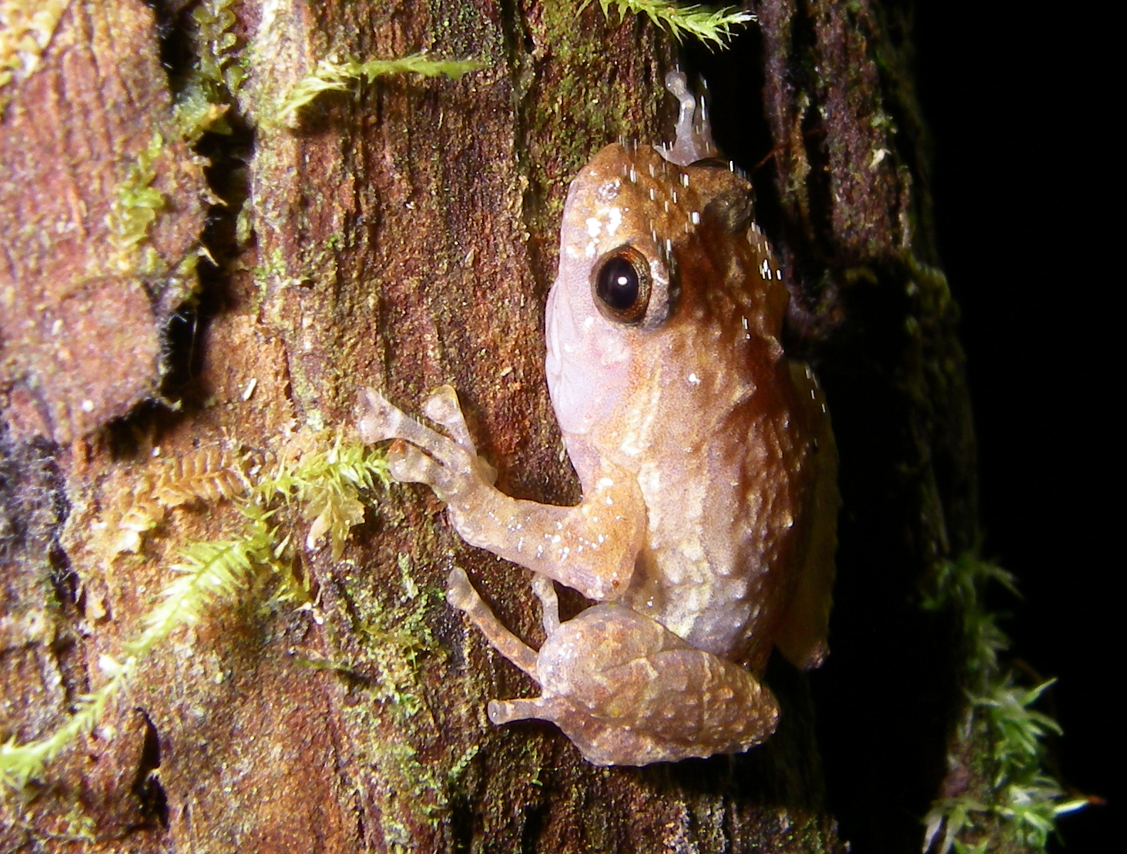 Anodonthyla boulengerii (Microhylidae); Ranomafana National Park, Madagascar